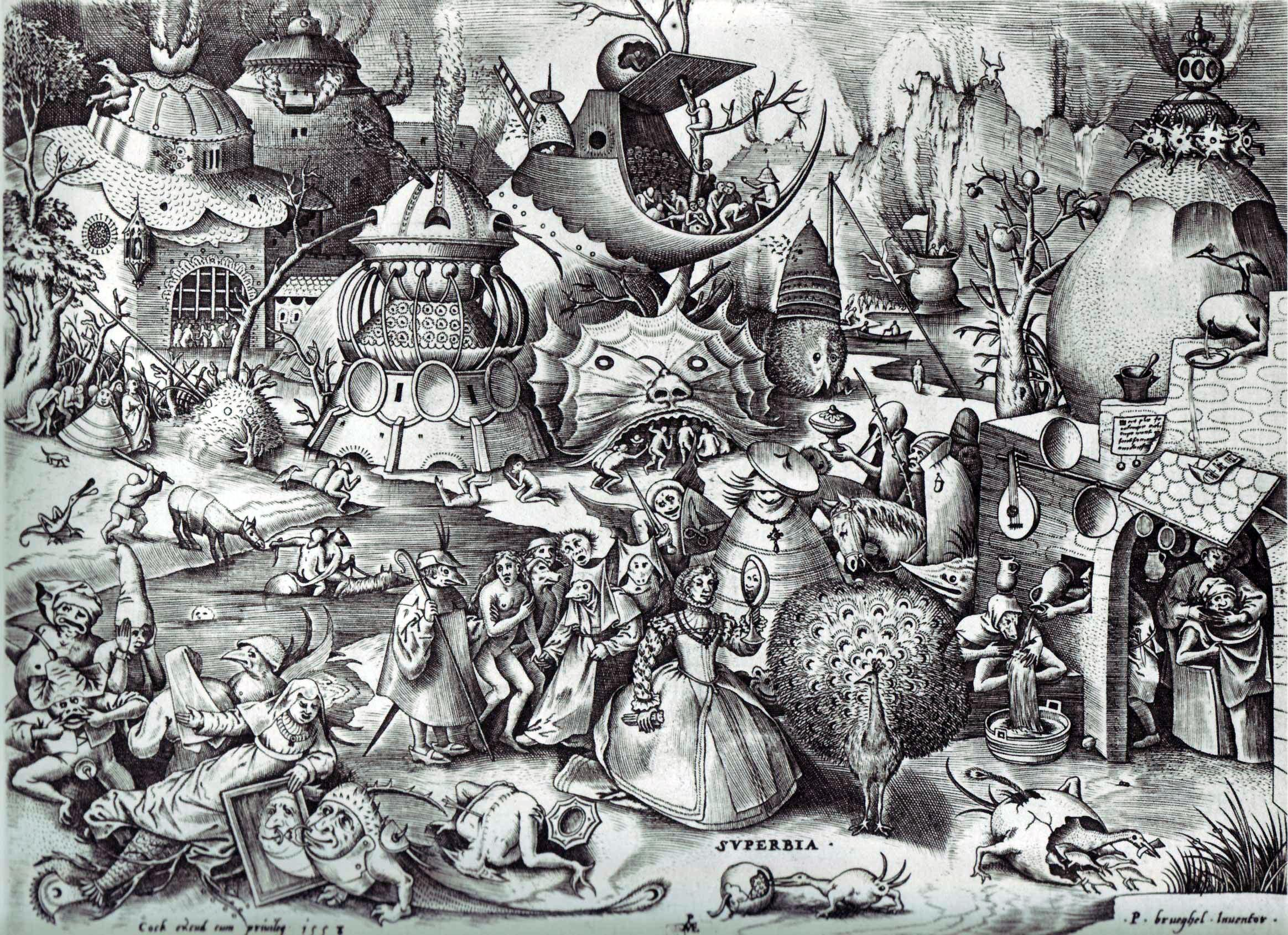 Pieter Bruegel the Elder: The Seven Deadly Sins or the Seven Vices - Pride